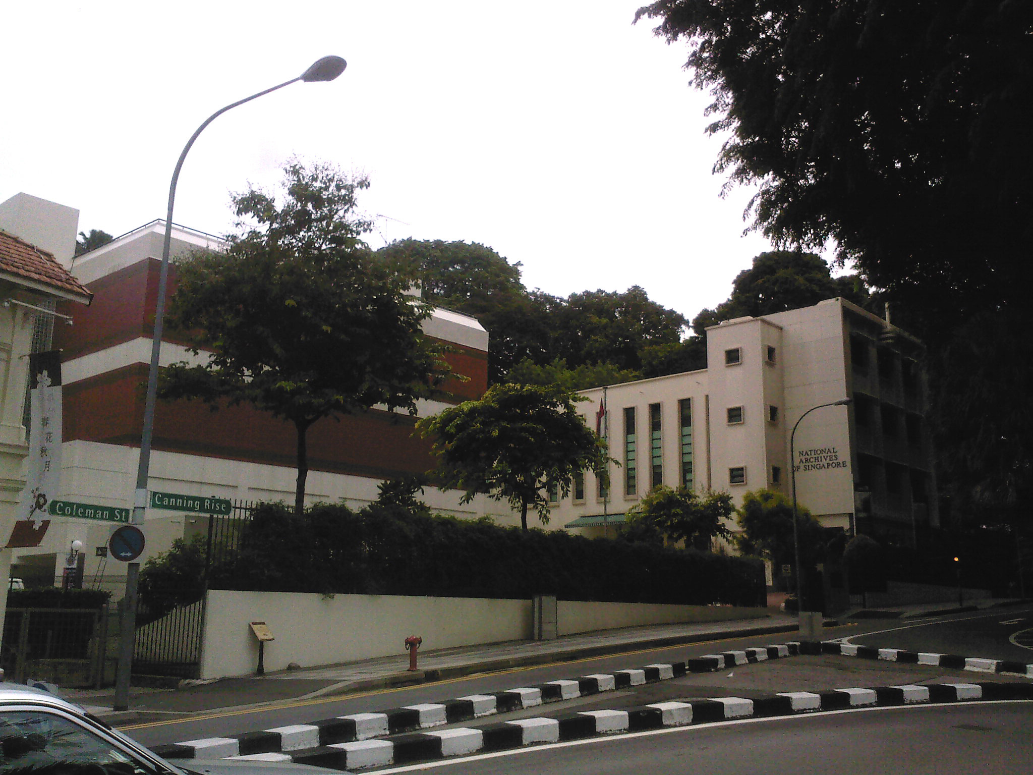 The National Archives of Singapore at 1 Canning Rise, Singapore 179868. It occupies the former campus of Anglo-Chinese Primary School, which moved out in 1994.